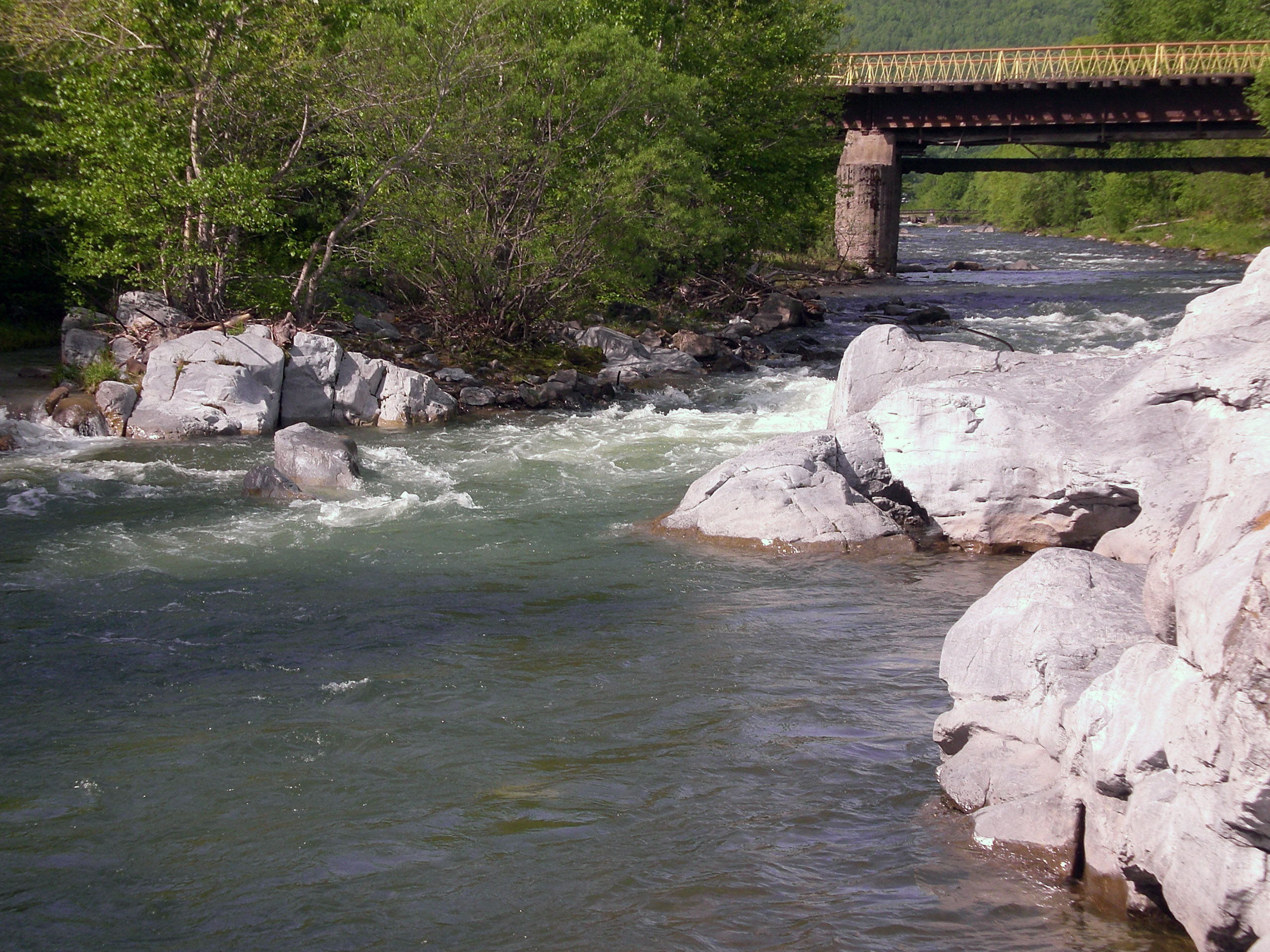 Rudnaya r.